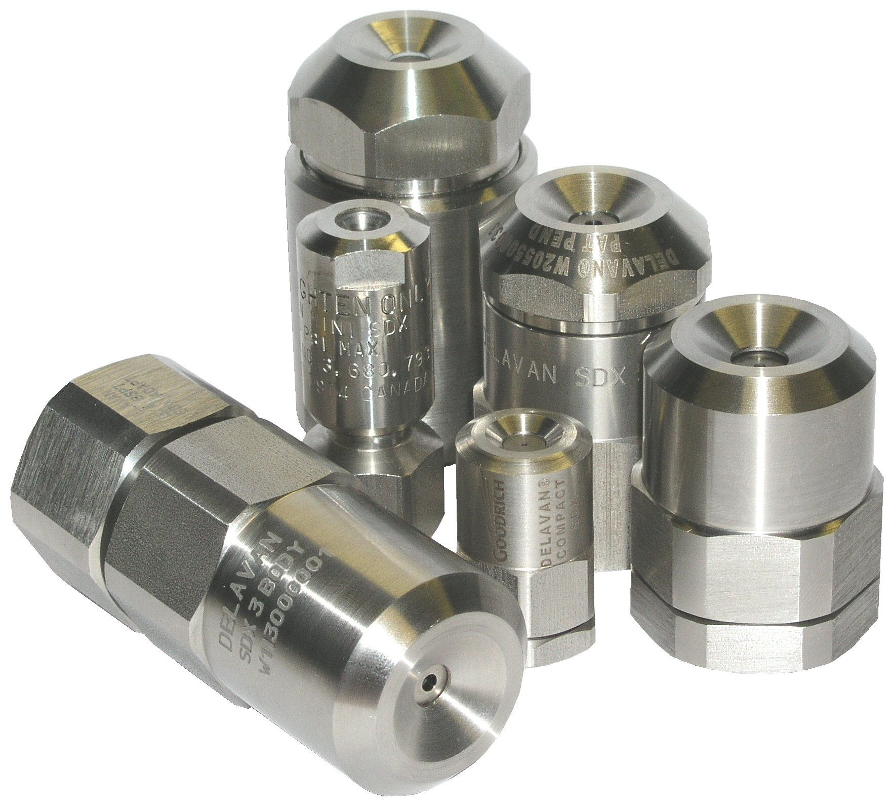 Delavan SDX Spray Drying Nozzle Family